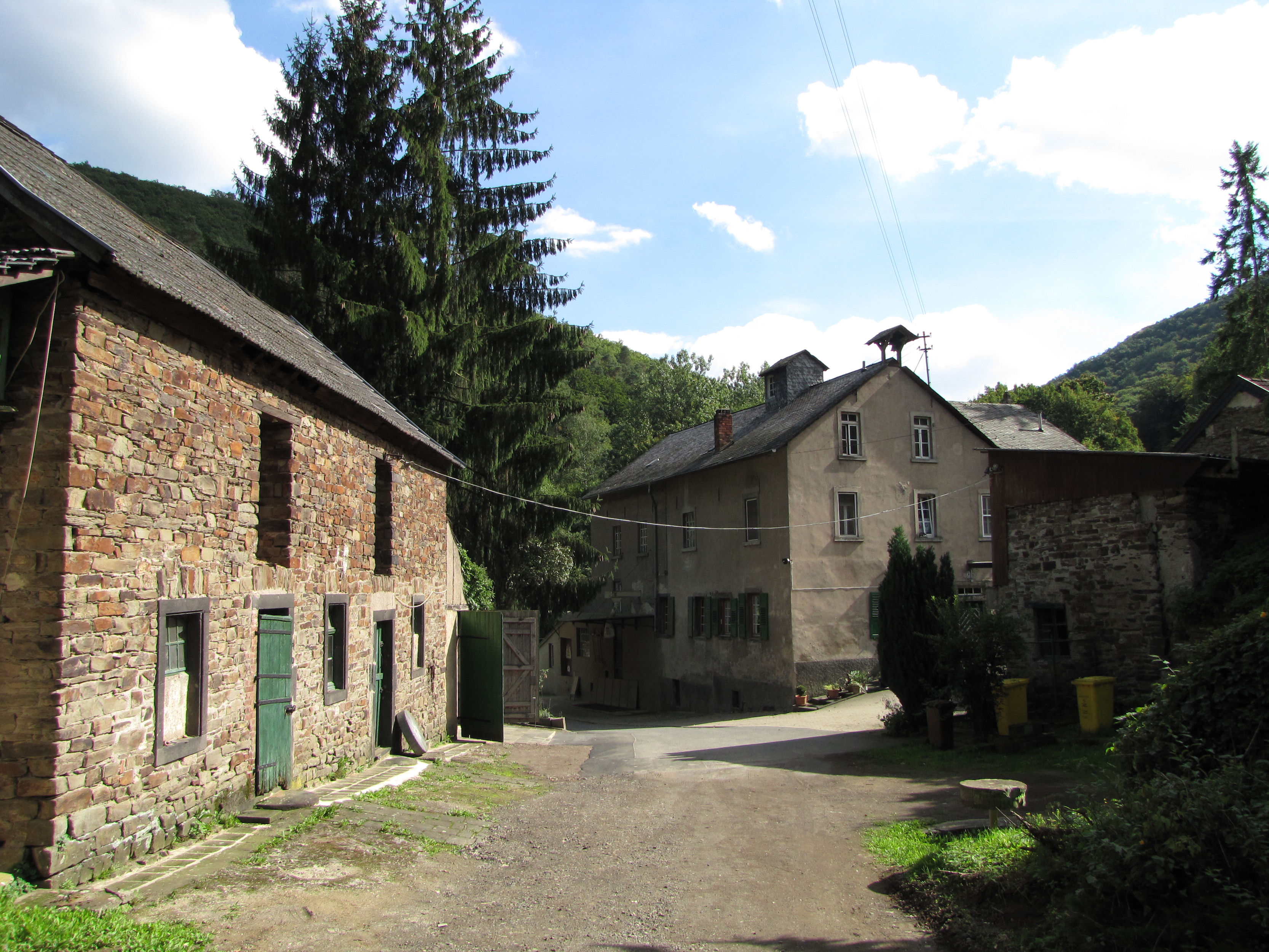 Schweppenburg Mill nearby Brohl-Lützing